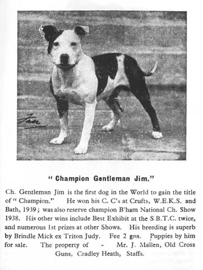 News clipping of one of Joseph Dunn's award-winning Staffordshire Bull Terriers, Gentleman Jim.